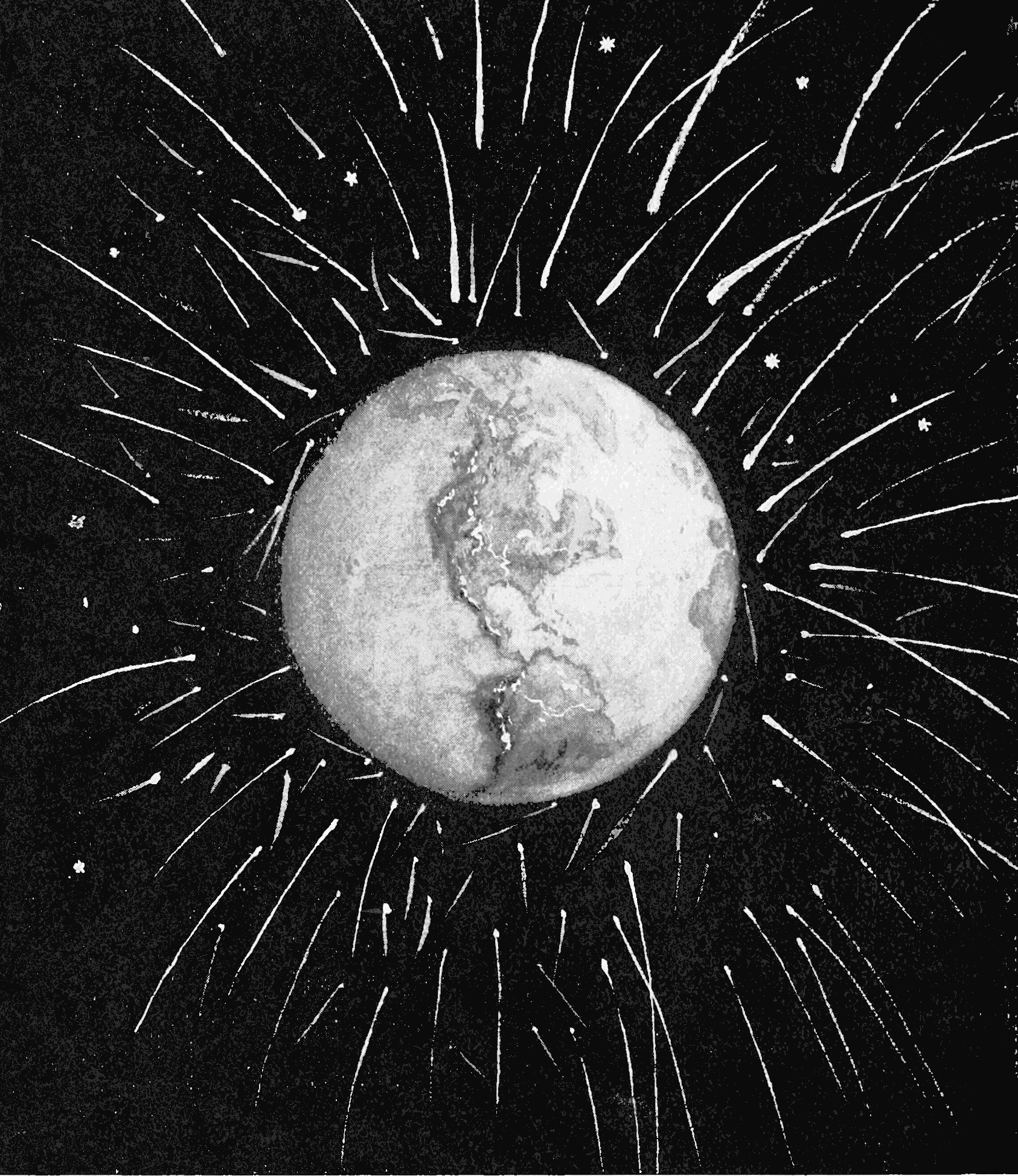 Meteorite bombardment of earth